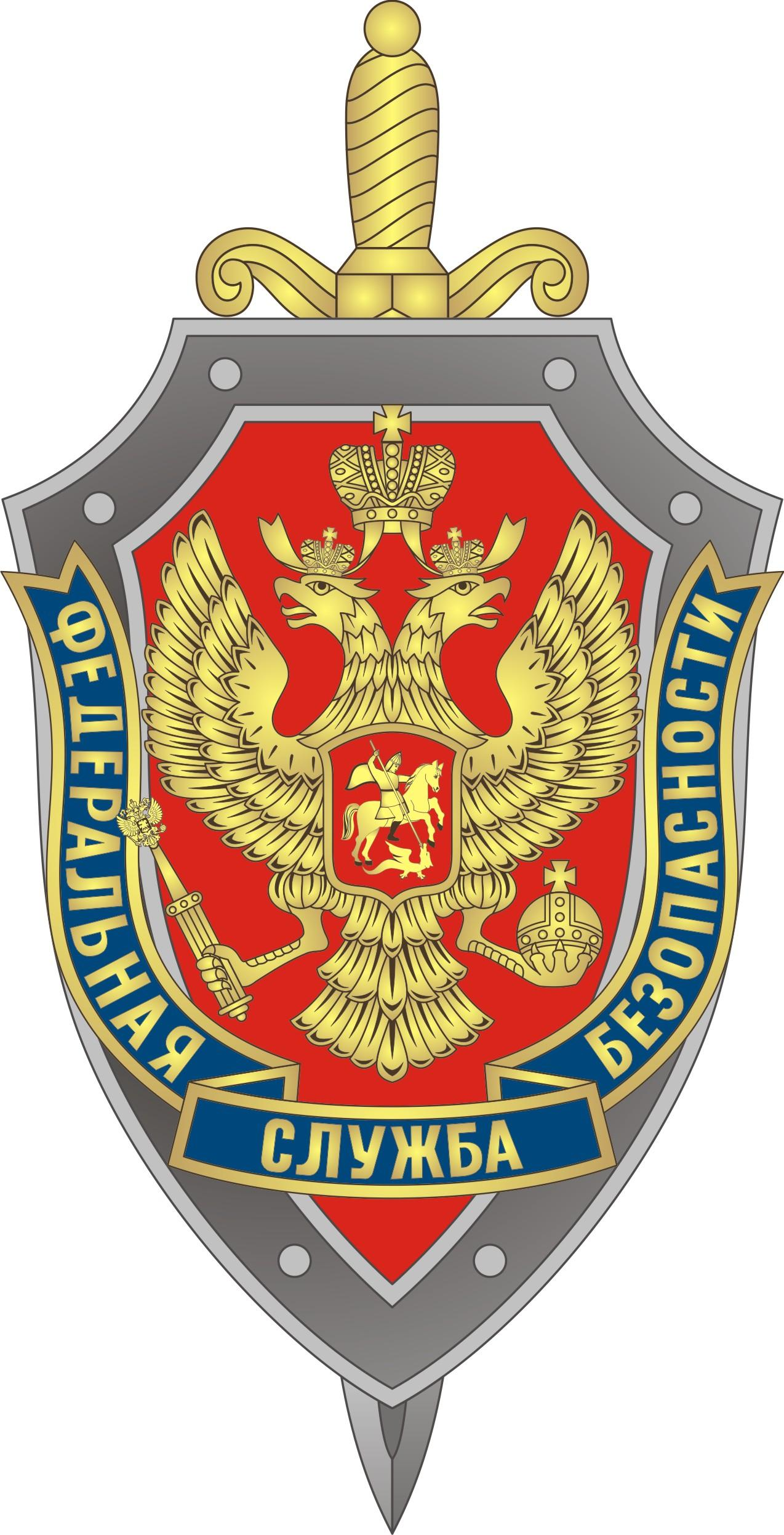 Emblem of Federal Security Service of the Russian Federation